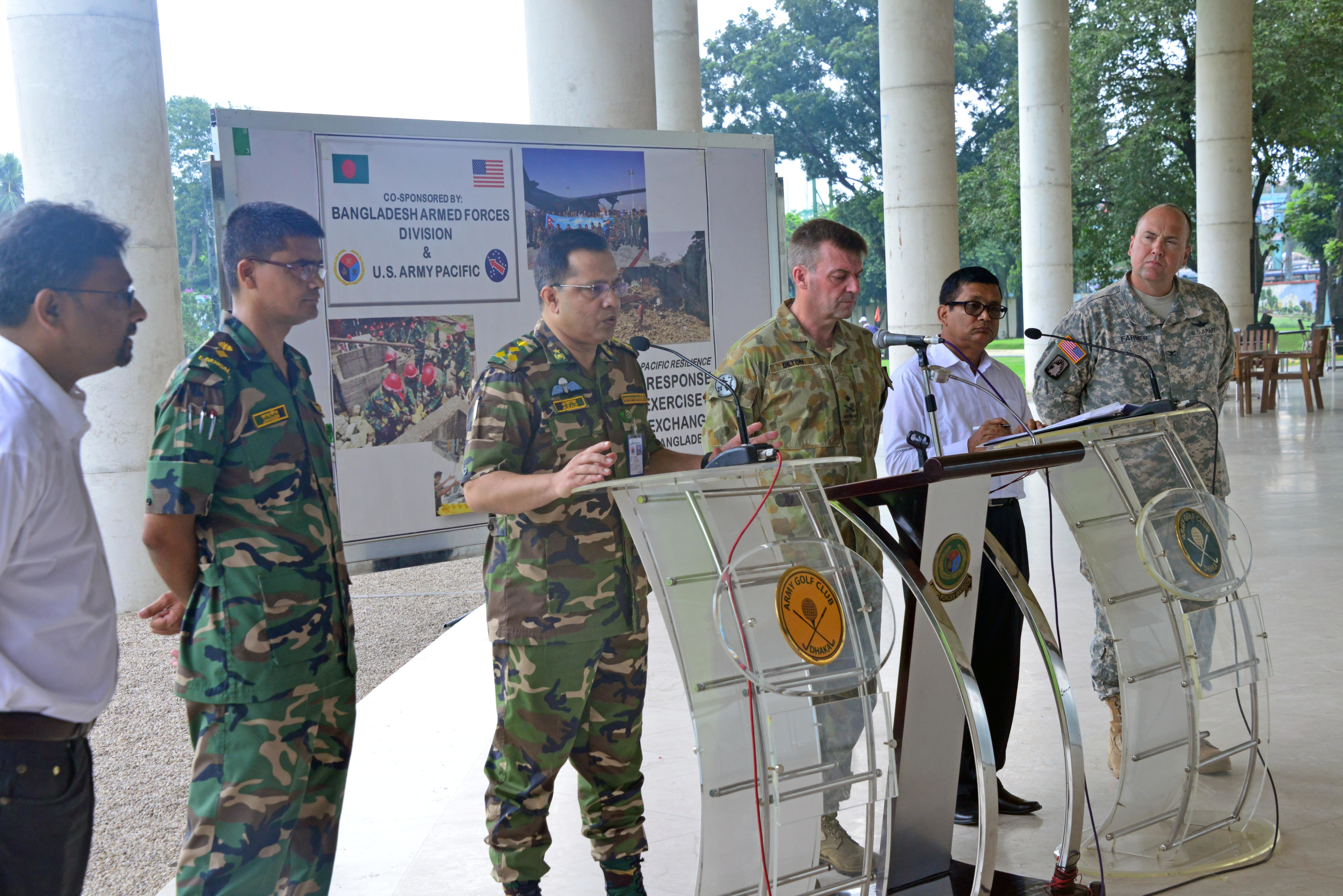 (From left to right) Brig. Gen. Azazul bar Chowdhury, Director General of Operations and plans, Australian General, Maj. Gen. Gregory C. Bilton, U. S. Army Pacific Deputy Commanding General, Mr. Md Mohsin, Ministry of Disaster Management and relief Joint Secretary, Col. Todd Farmer, Head of Delegation for the DREE and Joint Logistics Officer for the Oregon National Guard, answer questions from local and international media during a press briefing at the 2015 Bangladesh Pacific Resilience Disaster Response Exercise & Exchange, August 30, in Dhaka, Bangladesh. The exercise runs from August 30 to September 03, 2015 and is a civil-military disaster preparedness and response initiative between the Governments of Bangladesh and the United States.